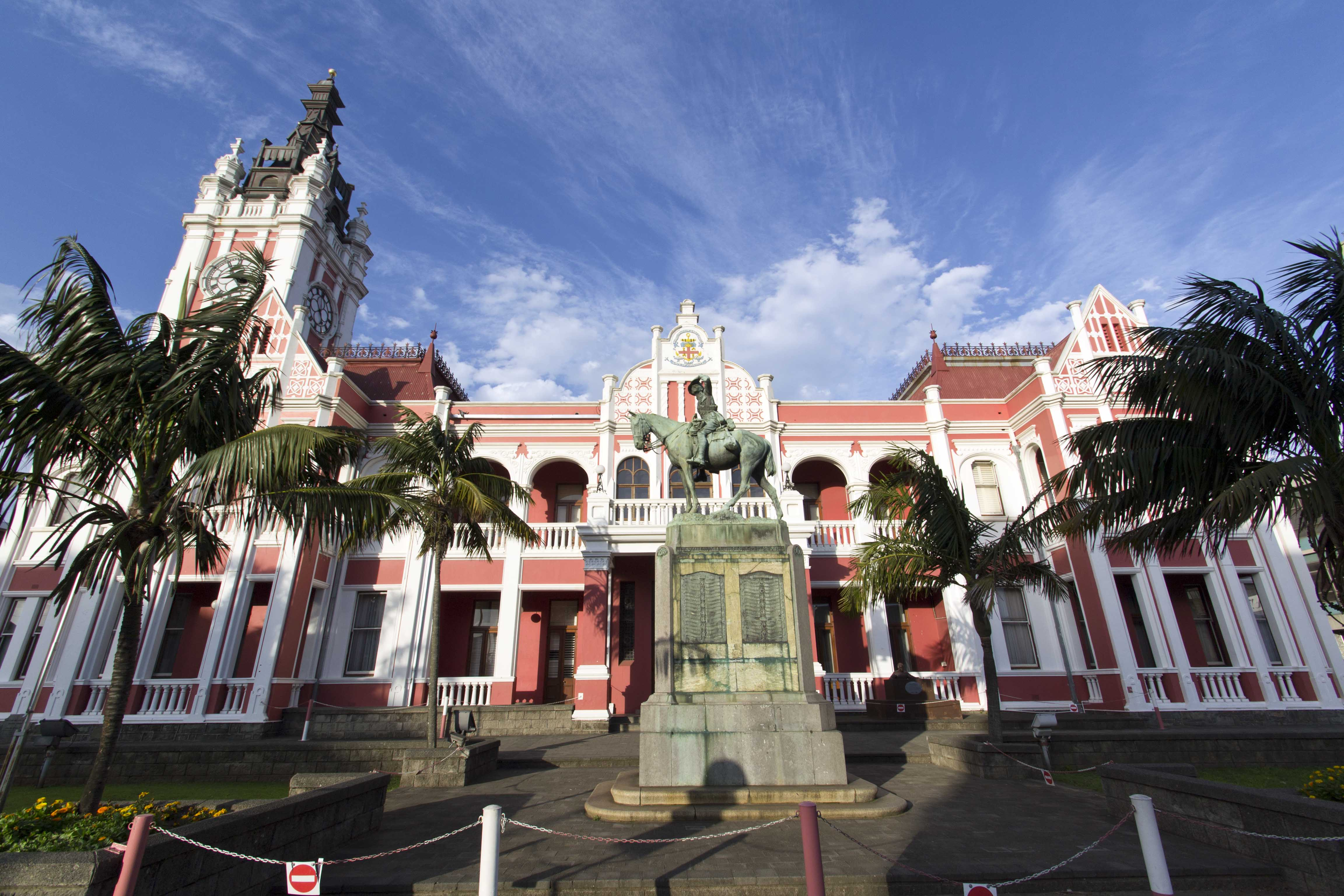 Victorian, neo-classical and Renaissance features, form an integral part of the historical and architectural core of East London. This view shows the War Memorial in the foreground. This media shows a South African Protected Site with SAHRA file reference 9/2/026/0005.